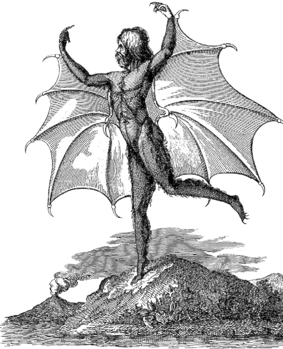 Portrait of a man-bat (Vespertilio-homo), from an edition of the moon series published in Naples. (Courtesy of the New York Public Library.)